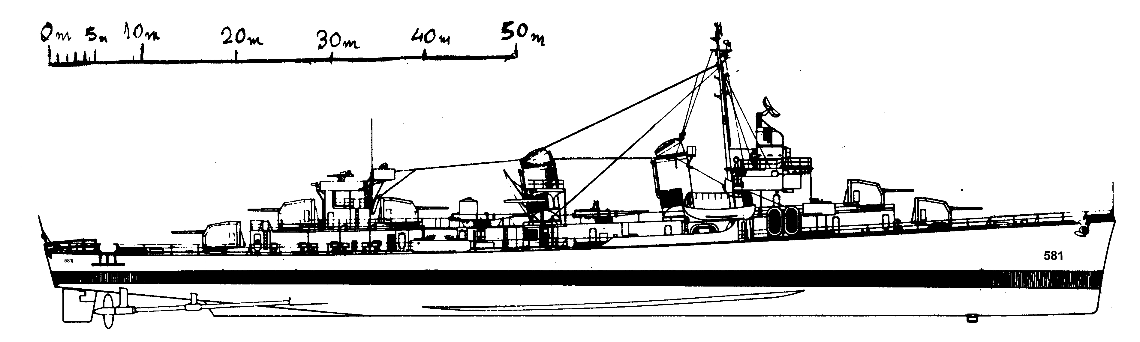 Profile of USS Charrette DD-581 upon her completion (1943)